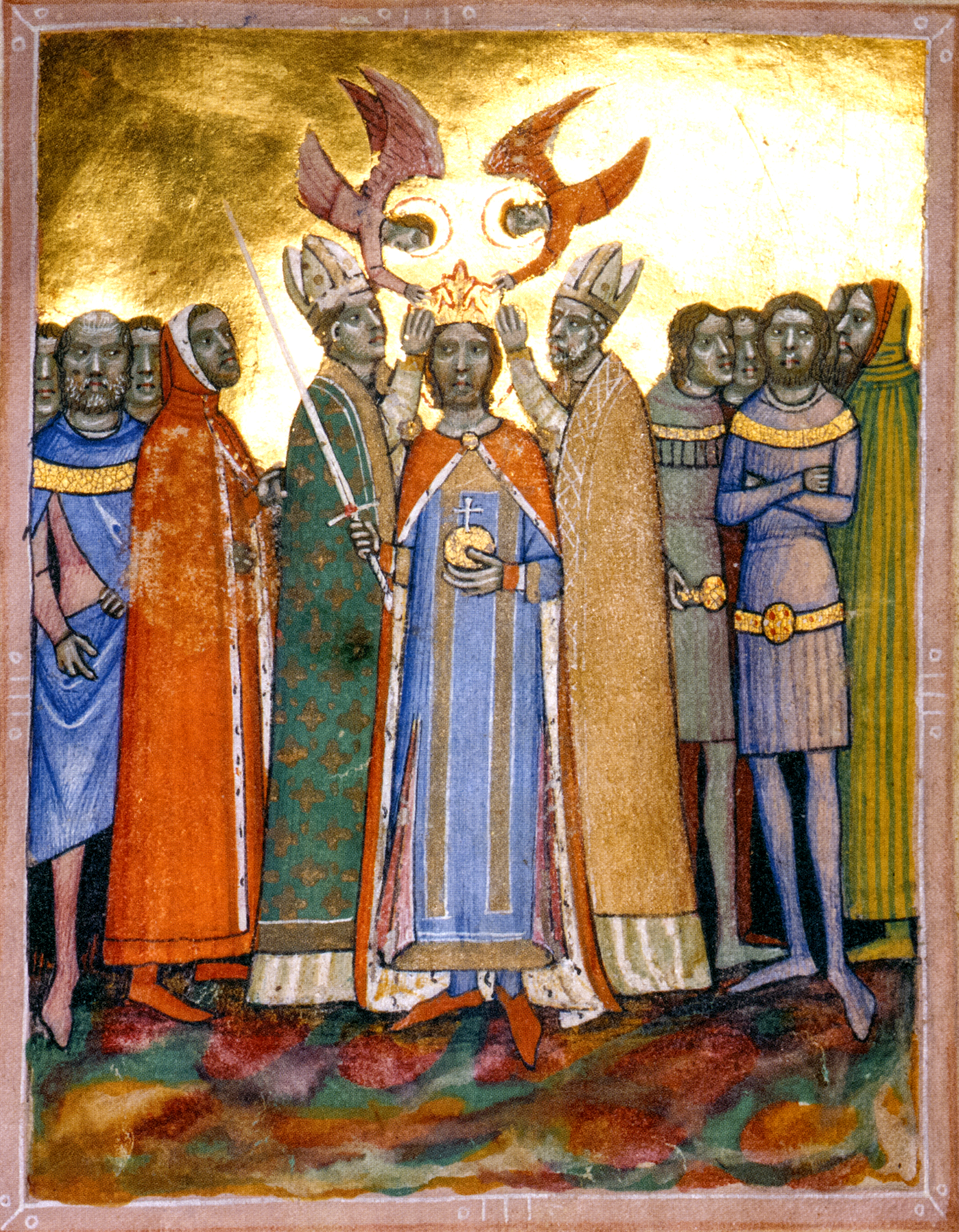 Miniature of the (divine) coronation of King St. Laszlo